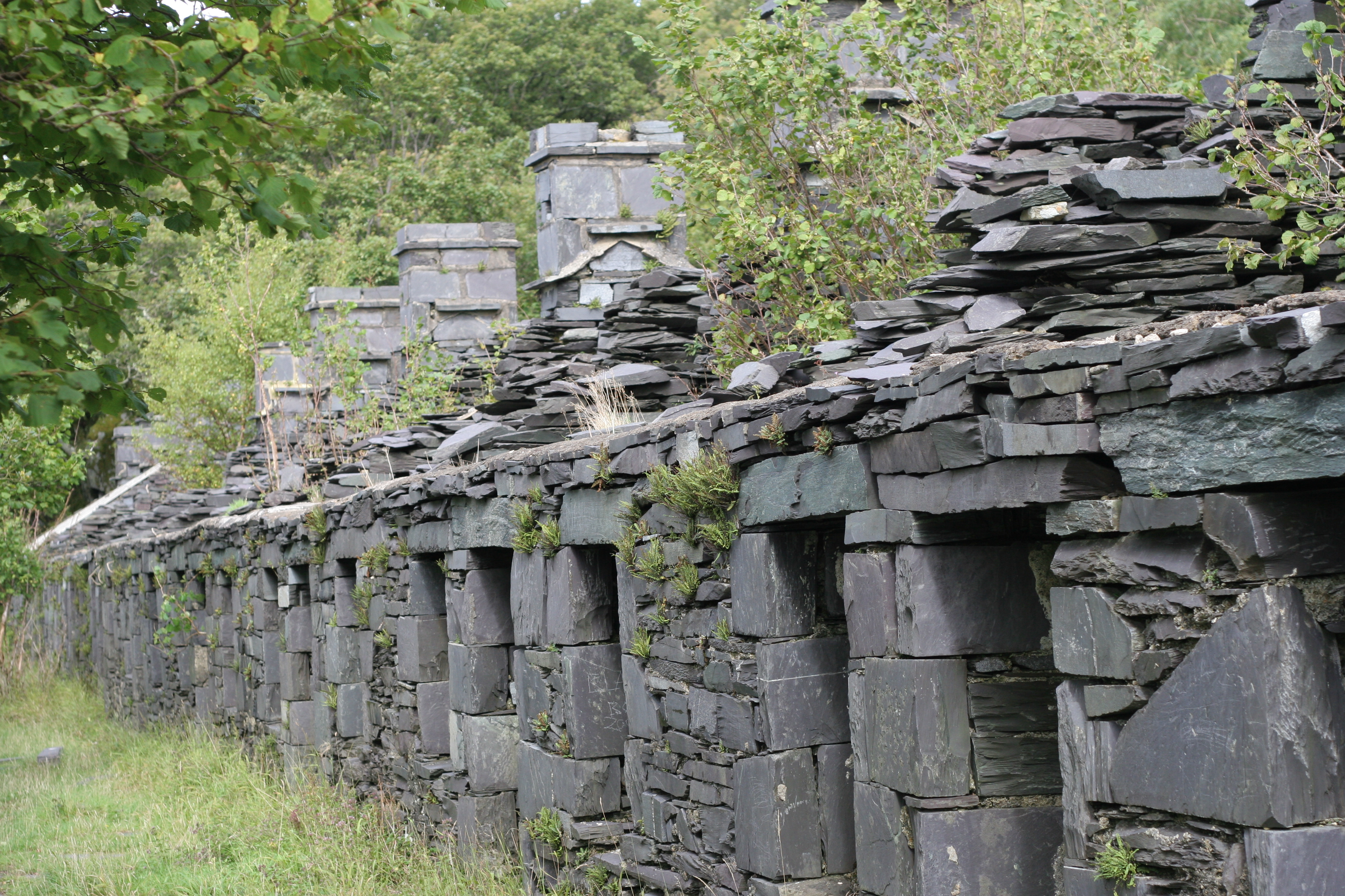 The Anglesey Barracks, Dinorwig Quarry, Gwynedd